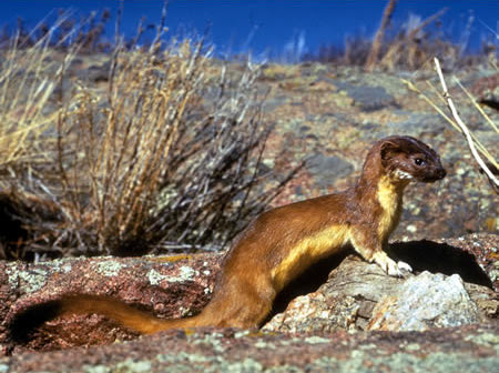 North American Longtail Weasel